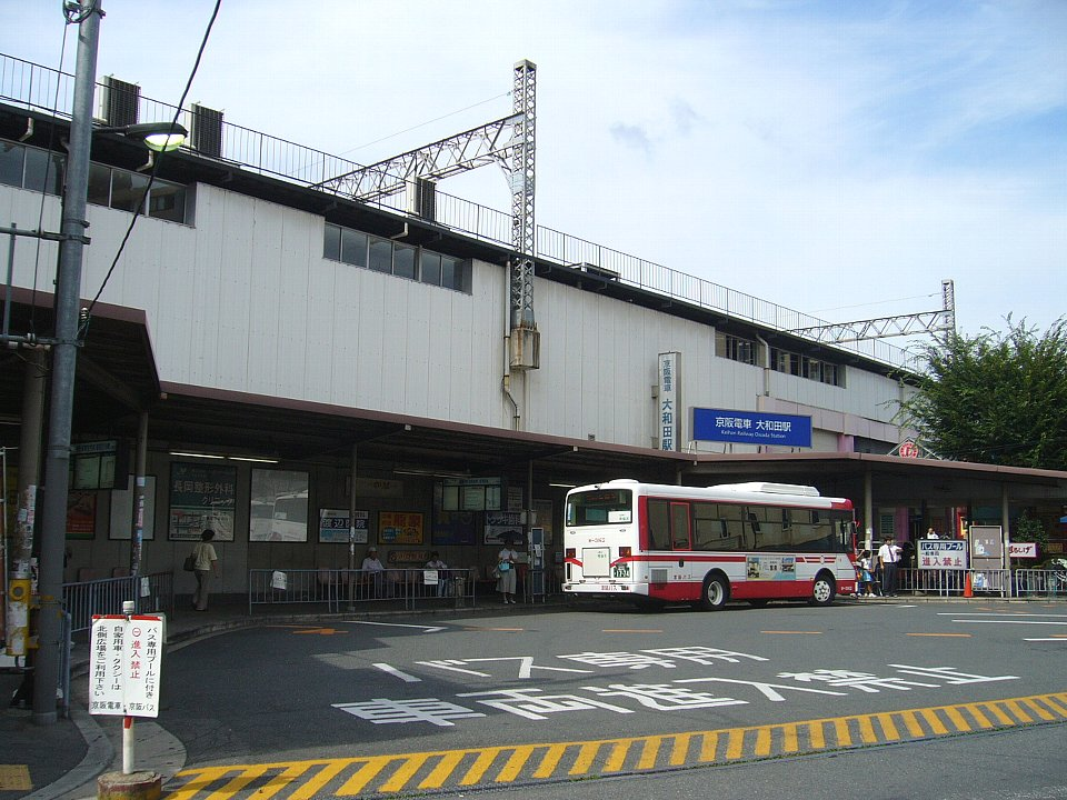 Keihan Owada Station